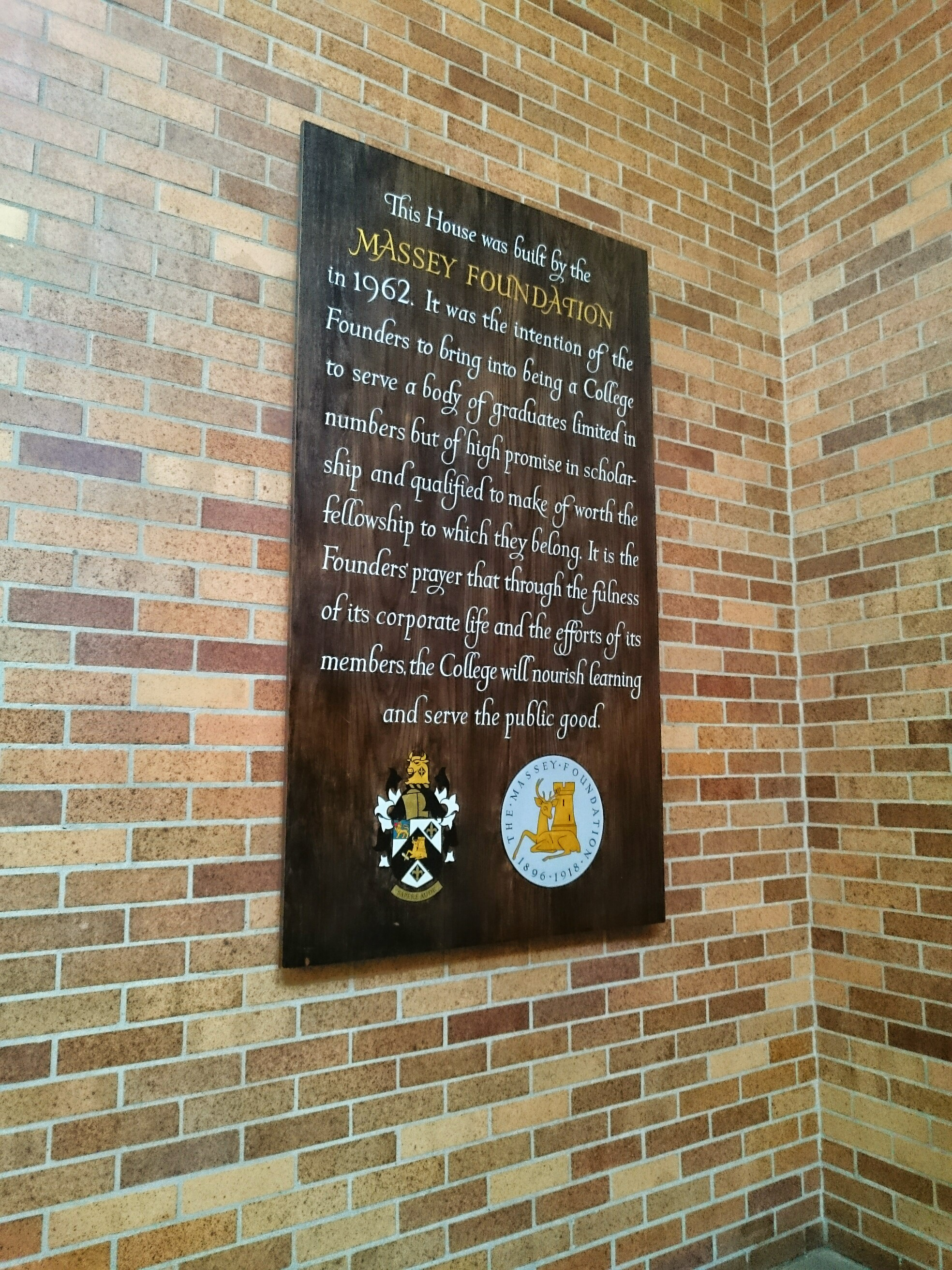 This inscription hangs in the main stairwell of Massey College, describing the purpose of founding the college and the character of the Junior Fellows who are elected as such.